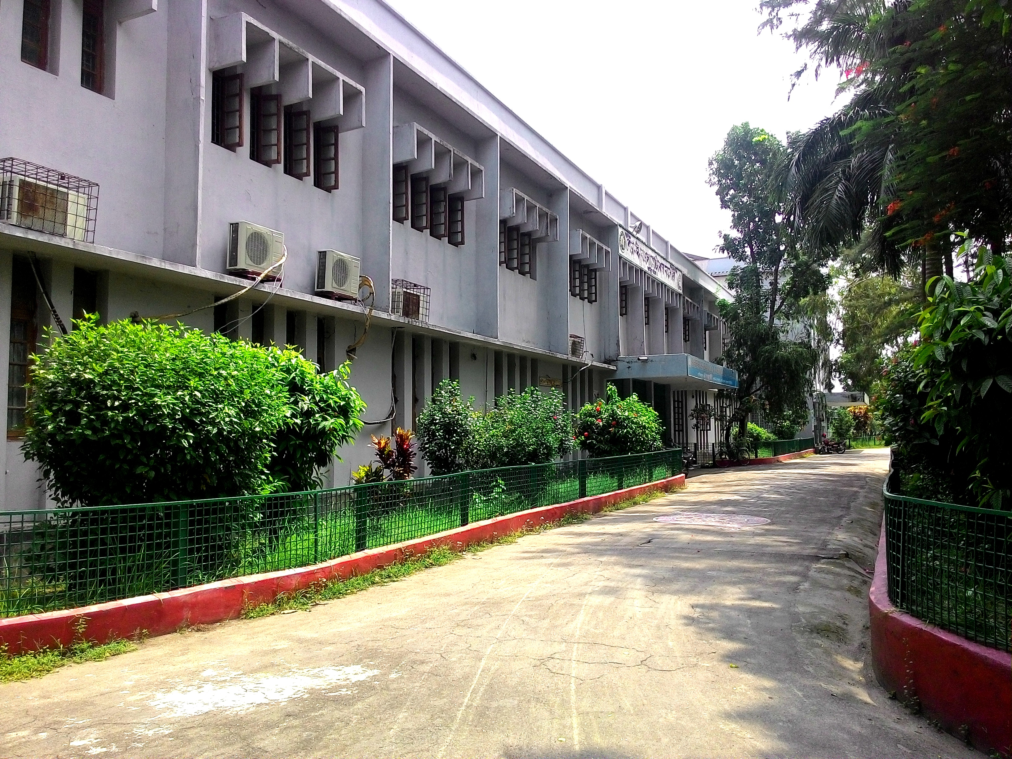 Sher-e-Bangla Medical college academic building, Barisal, Bangladesh